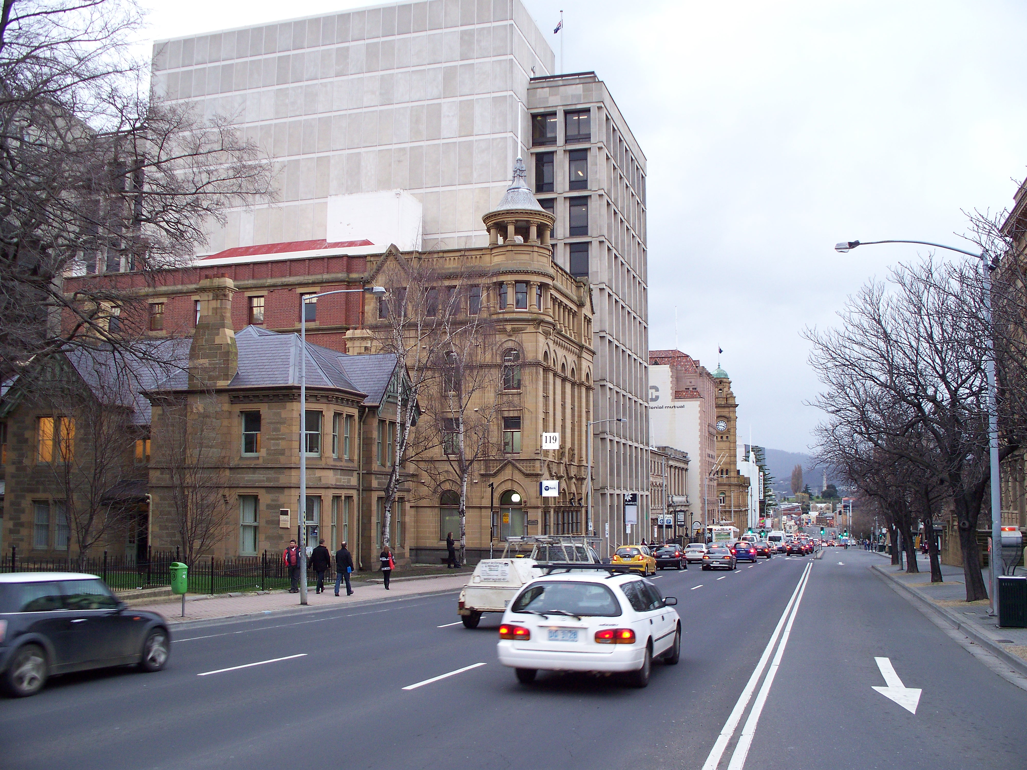 Macquarie Street in the Hobart CBD, looking east from the Murray Street intersection. This picture was taken at the intersection of Macquarie and Murray Streets on a Wednesday afternoon.